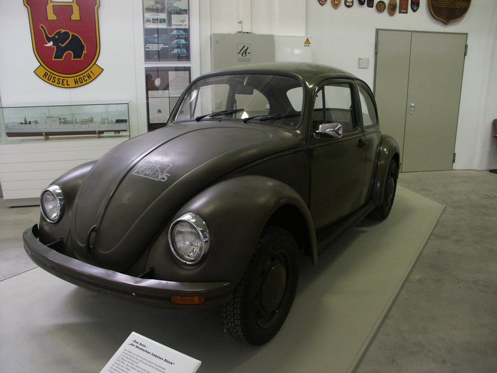 German Army Museum at Dresden - West German Army Volkswagen Beetle